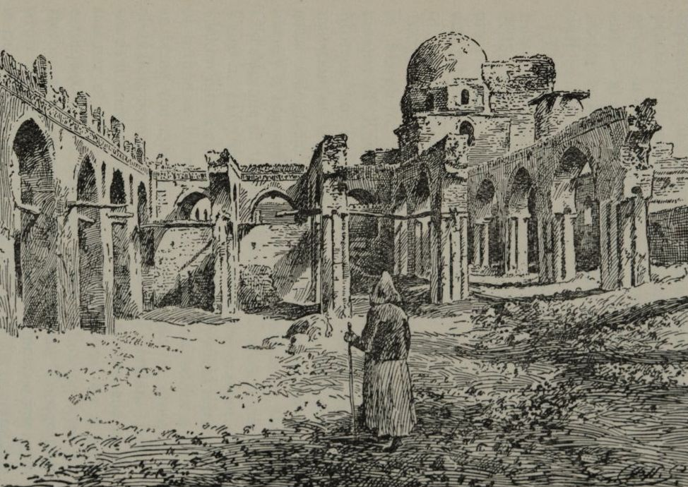 Ruined Mosque of el-Hakim.Ruins of an old mosque. Line Drawing.